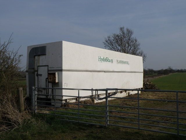 Hydroponics unit Developed to grow plants by hydroponic method (roots in a liquid growing medium) Looks to be used as a field store now.